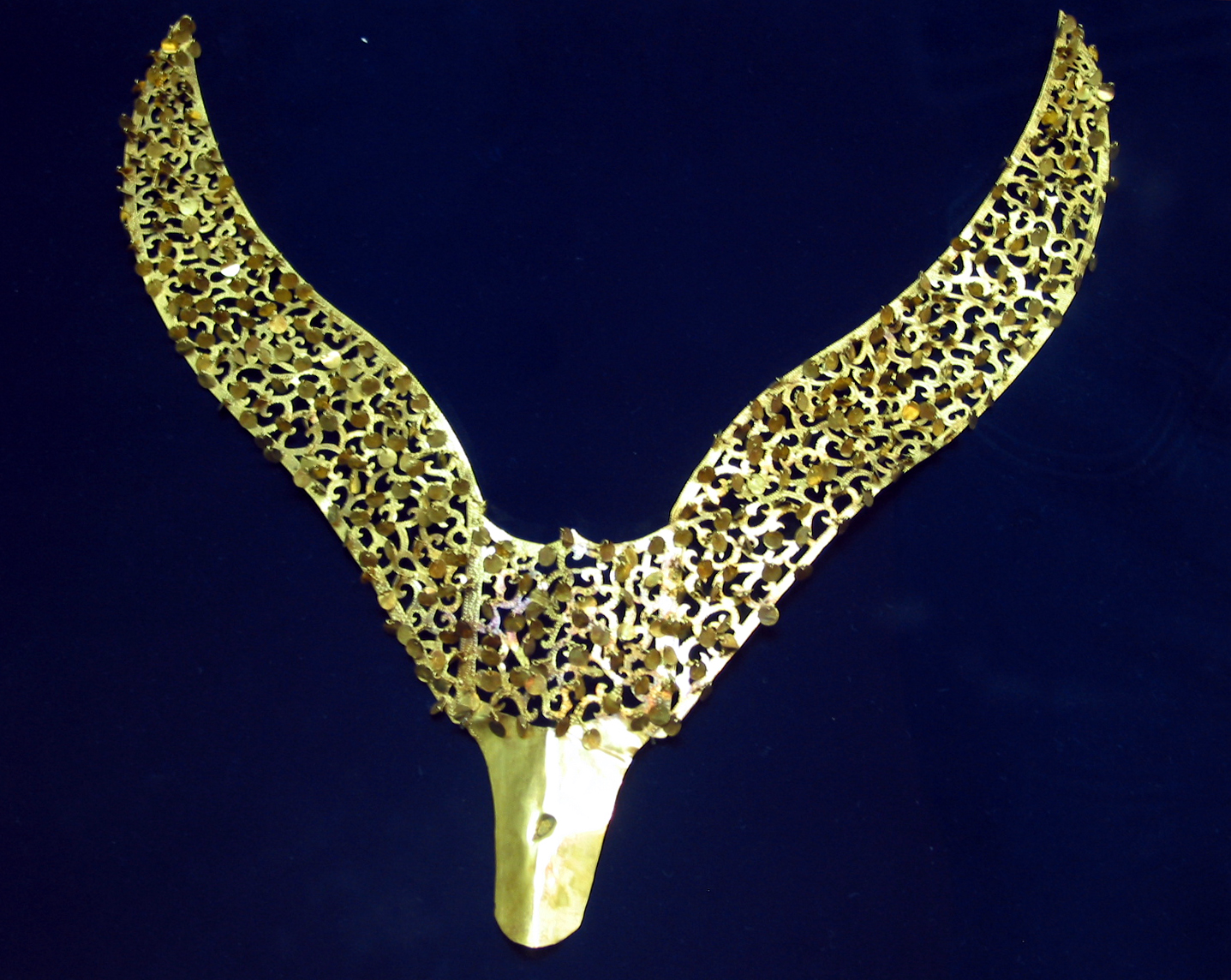 A gold ornament excavated from a tomb from the Old Silla period. Materials: Copper Alloy This gold diadem ornament is shaped like a bird fluttering its wings energetically. It is composed of three gold sheets containing many small etched patterns. Circular spangles are attached to the edge, and the top of the center sheet contains a simplified dragon design which resembles a scroll design. The two sides are unsymmetrical. Dimensions: H. 40.8cm